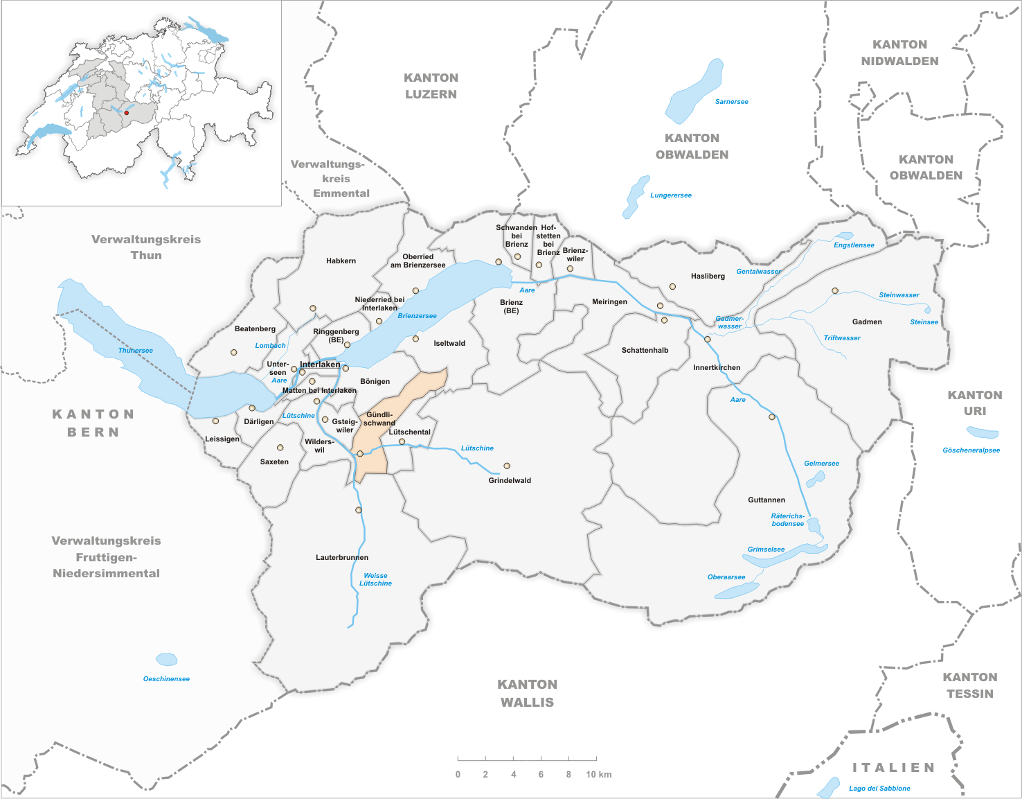 Municipality Gündlischwand